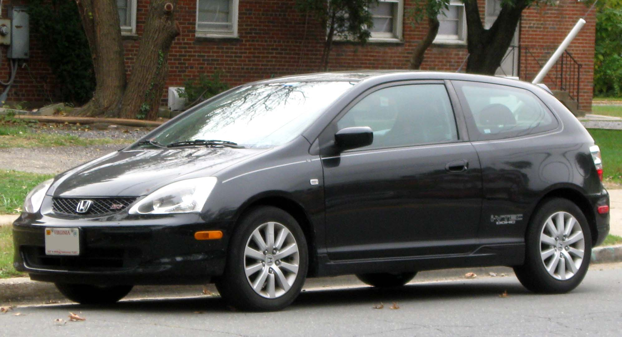 2004-2005 Honda Civic Si photographed in College Park, Maryland, USA.